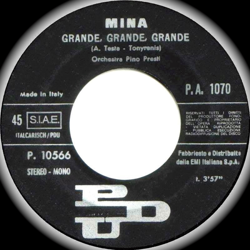 Label of Mina Mazzini's song "Grande, grande, grande"